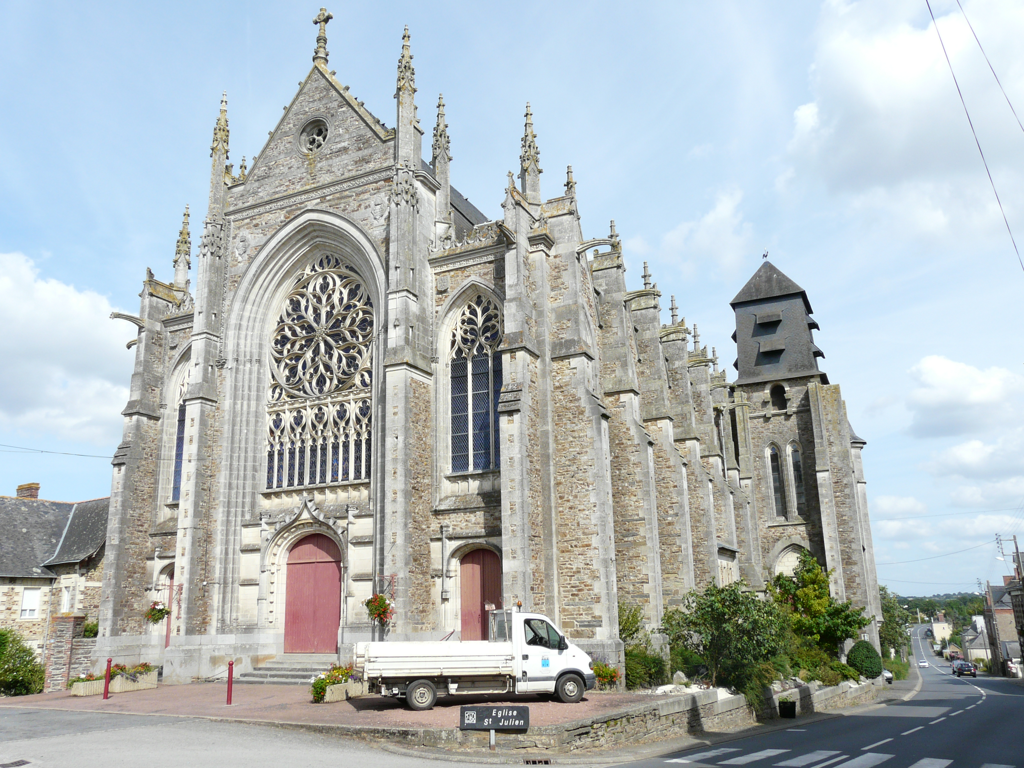 L'église St Julien (St Julien de Vouvantes)